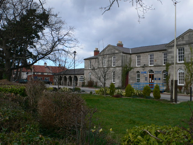 H M Stanley Hospital Originally the St Asaph Union Workhouse, where Henry Morton Stanley spent most of his childhood.